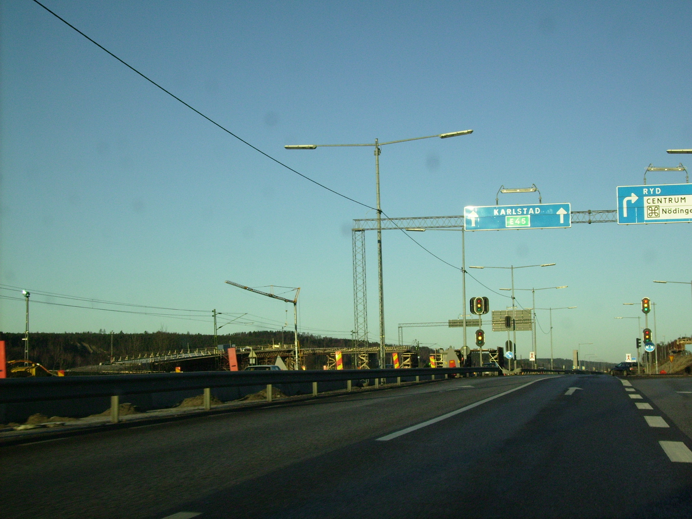 Reconstruction on E45 at Nödinge, Sweden, january 2009.